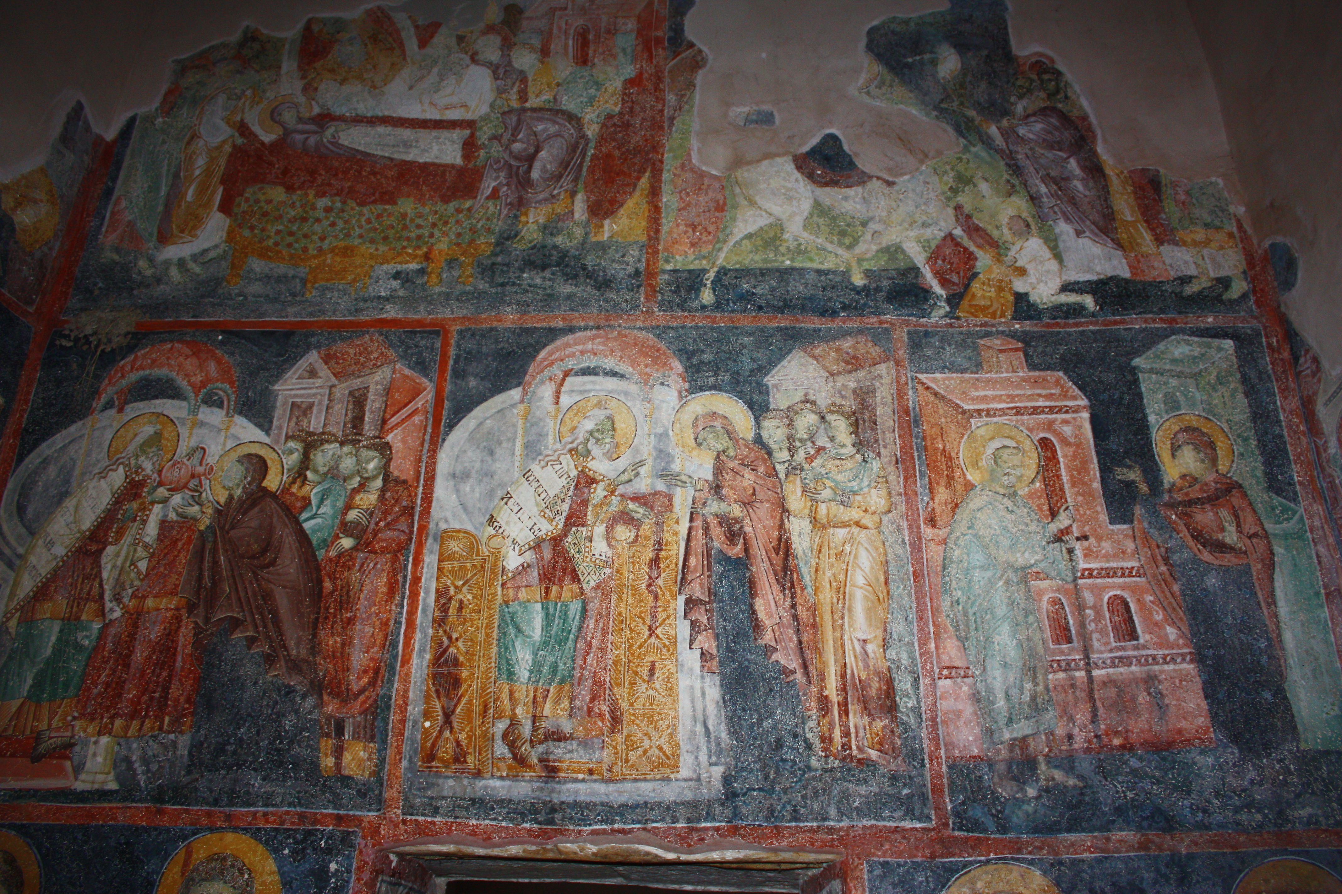 Fresco in St. Nicholas Church in Markova Sušica, Macedonia